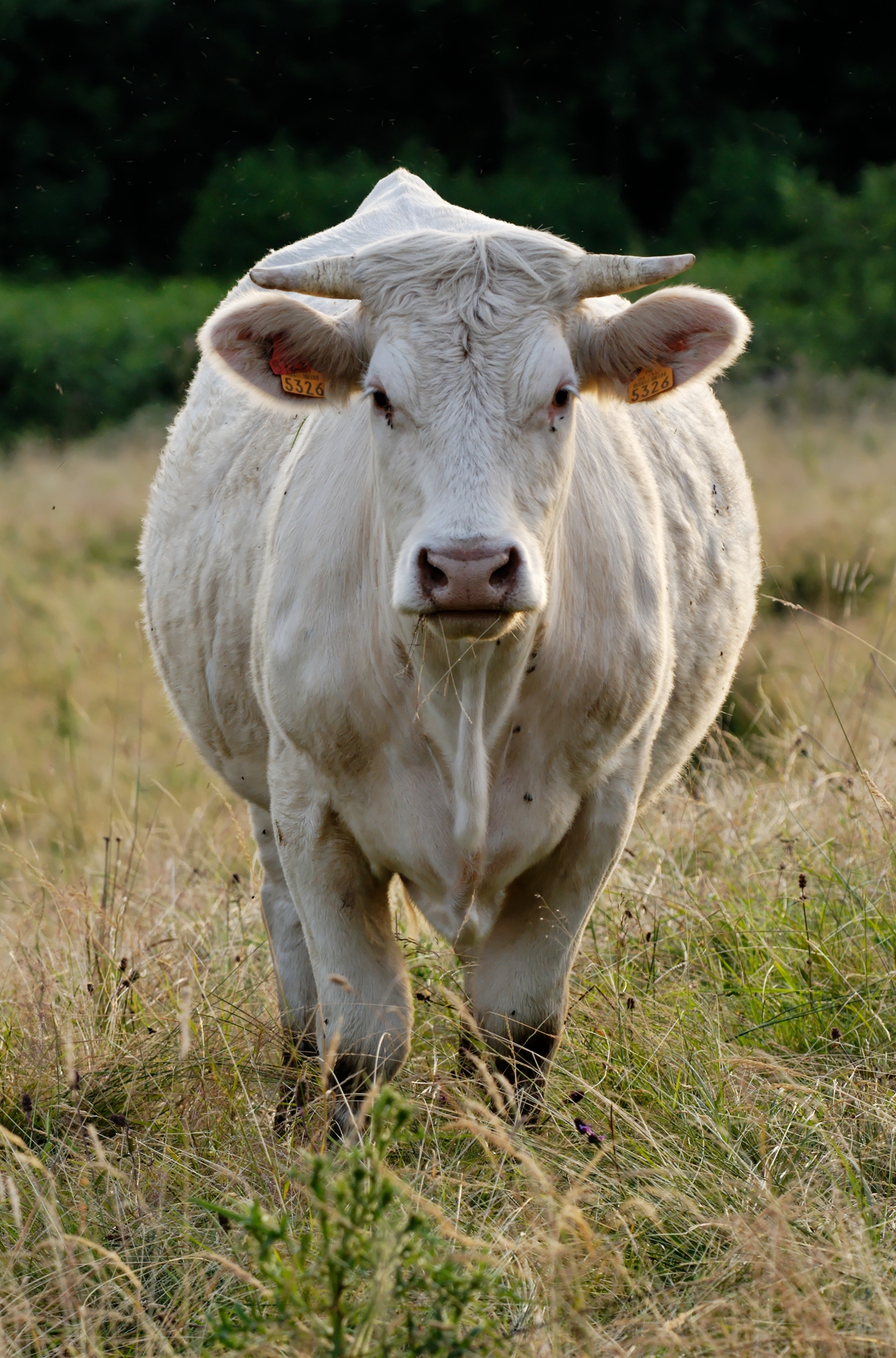 A Charolais cow grazing in Auvergne, France.